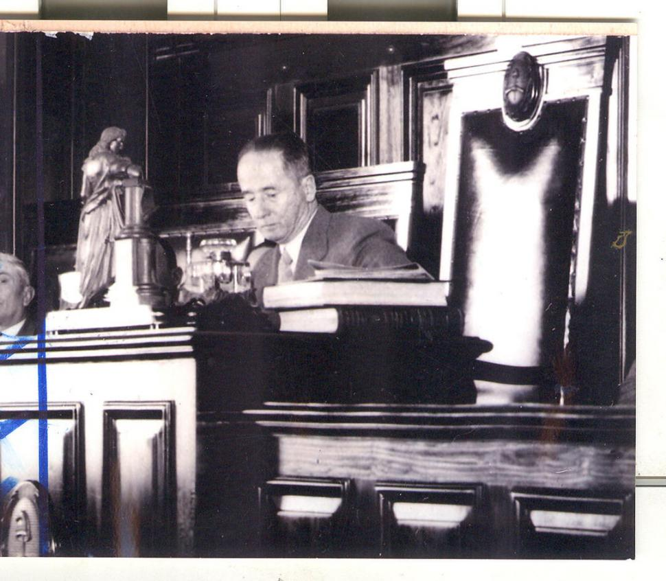 El presidente de la Corte Suprema de Justicia de Tucumán, Juan Heller.